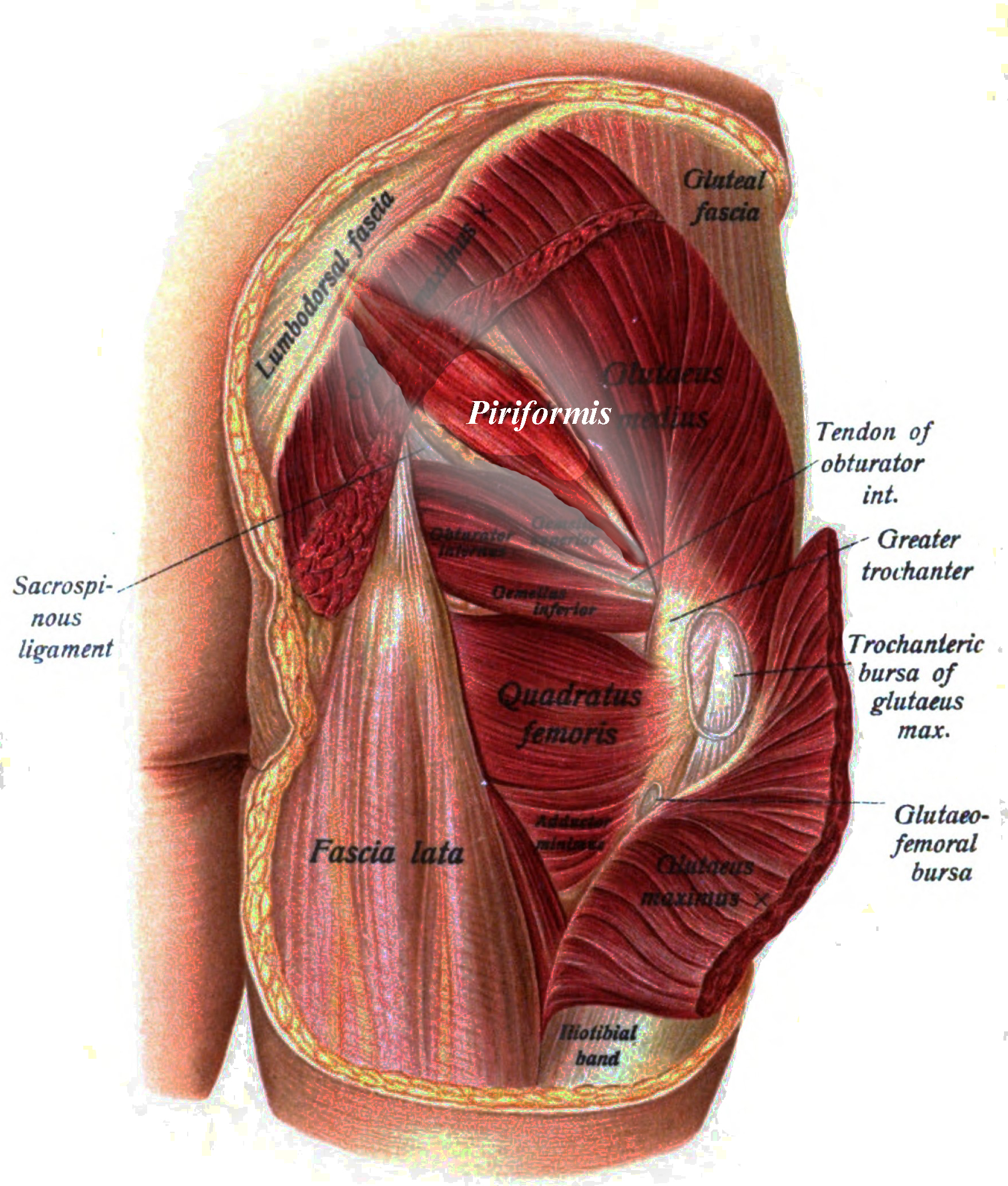 Piriformis muscle highlight of the gluteal muscles